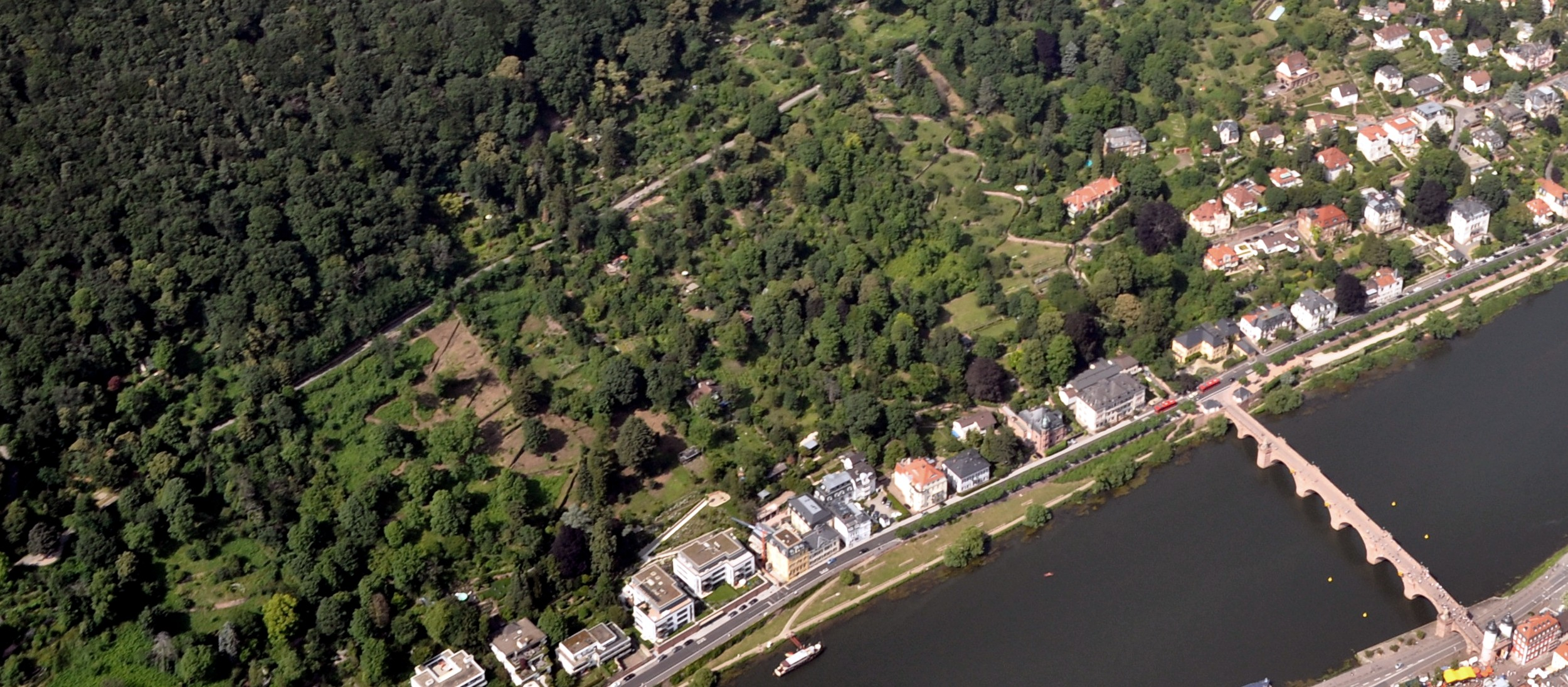 Aerial photograph of the philosopher's way in Heidelberg (Germany)